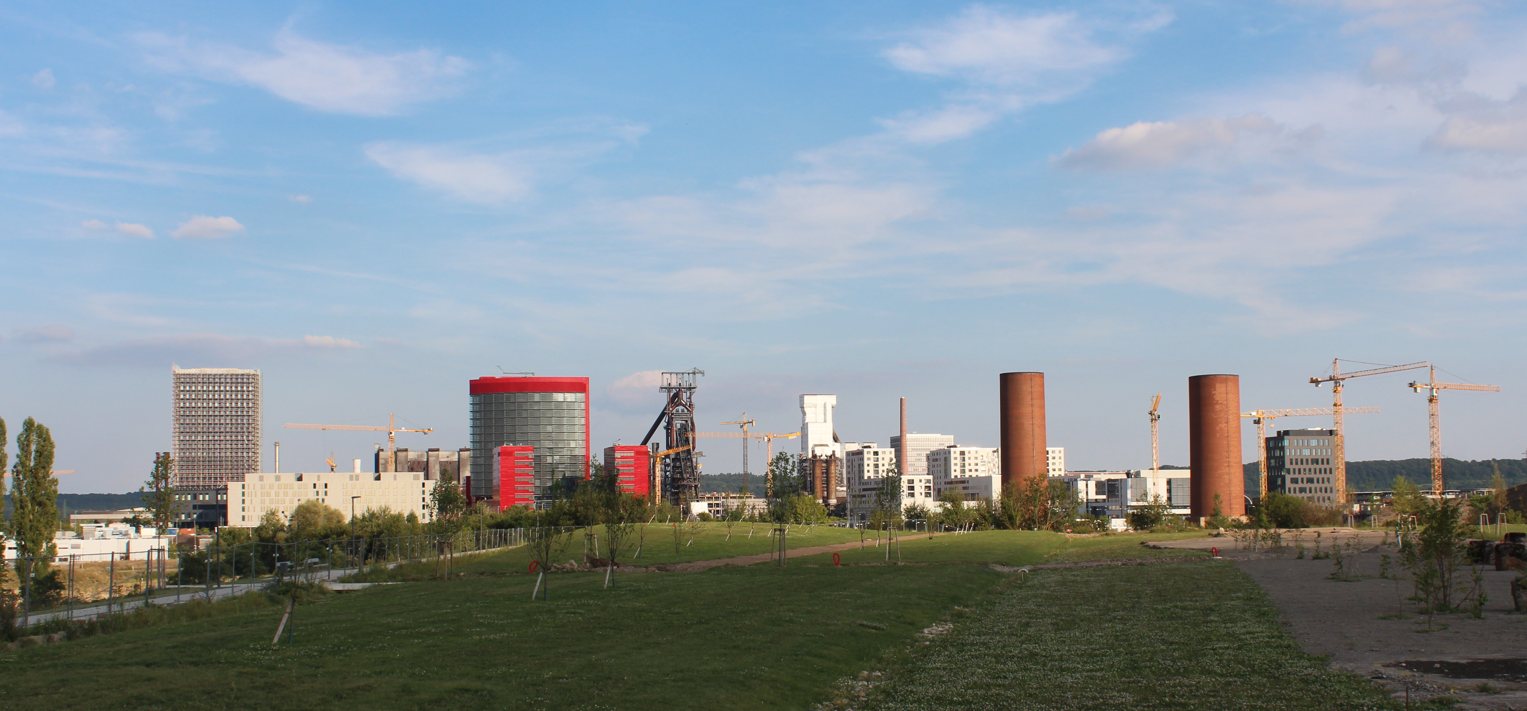 View of Belval, Luxembourg, seen from the West, from the (future) Parc Belval, Summer 2013.